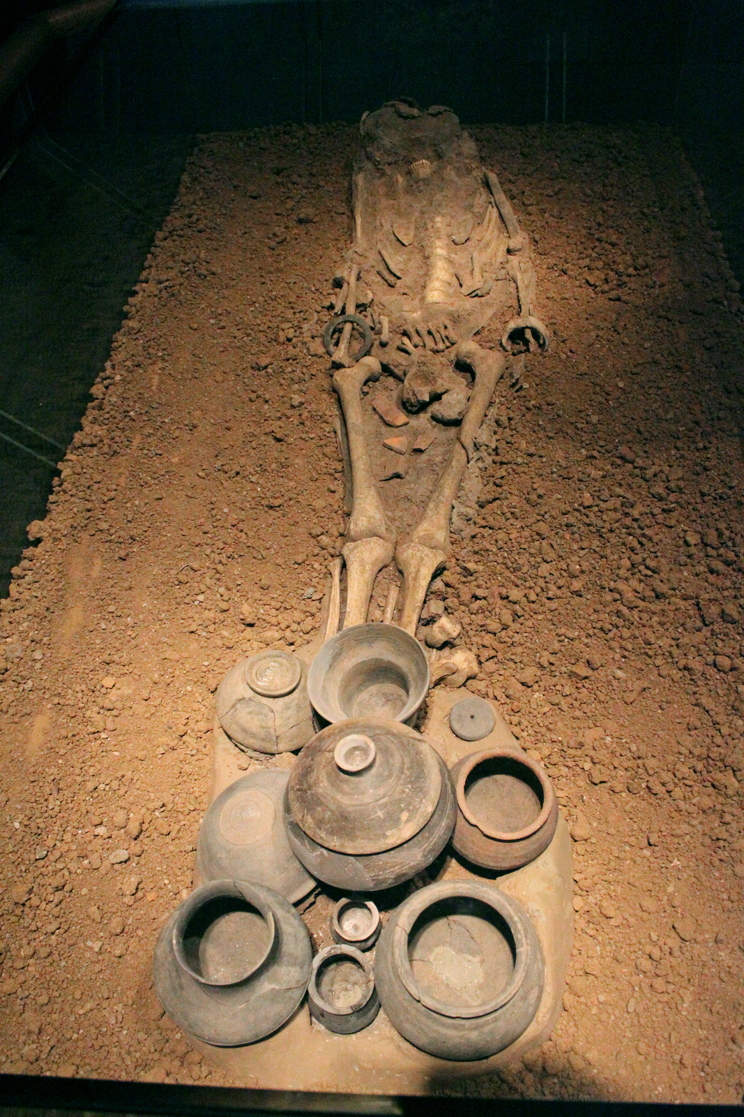 Qujialing Culture Skeleton & Burial Vessels. A Qujialing culture relic, skeleton unearthed at Luoshishan, Huanggang. Hubei Provincial Museum, Wuhan. Paleolithic, Neolithic & Shang Exhibit.